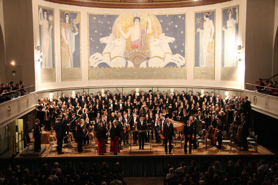 Choir and Orchestra of the Munich University of Applied Sciences at a concert in the Great Hall of the Ludwig Maximilian University, Munich